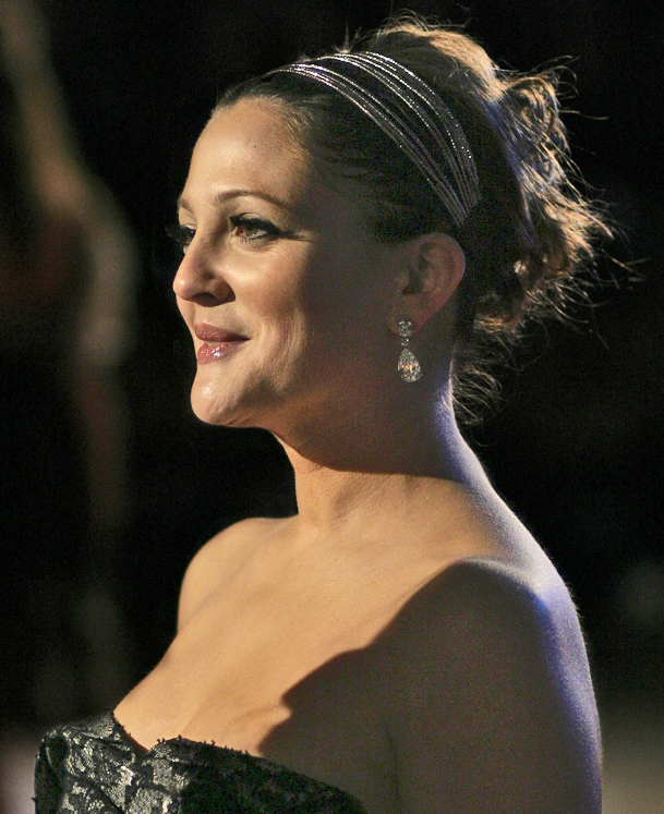 Drew Barrymore at the Music & Lyrics London premiere